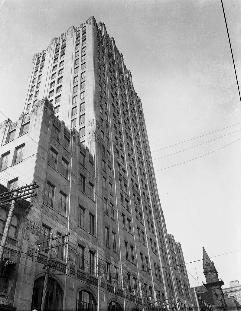 Toronto Star Building on King Street West, Toronto, Canada